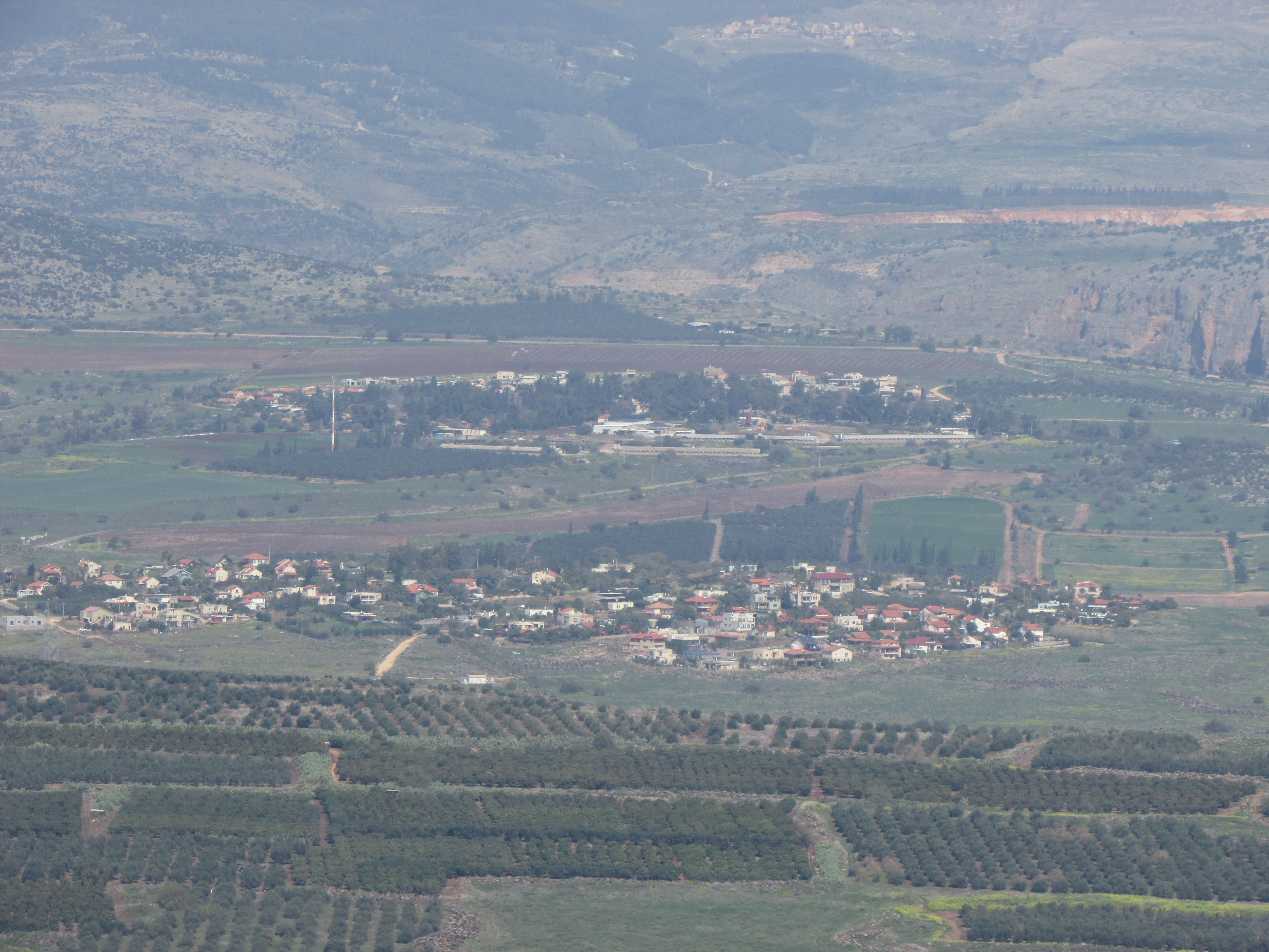 Livnim (red rooves in the front) and Hukok (more behind between the trees) taken from mount Arbel